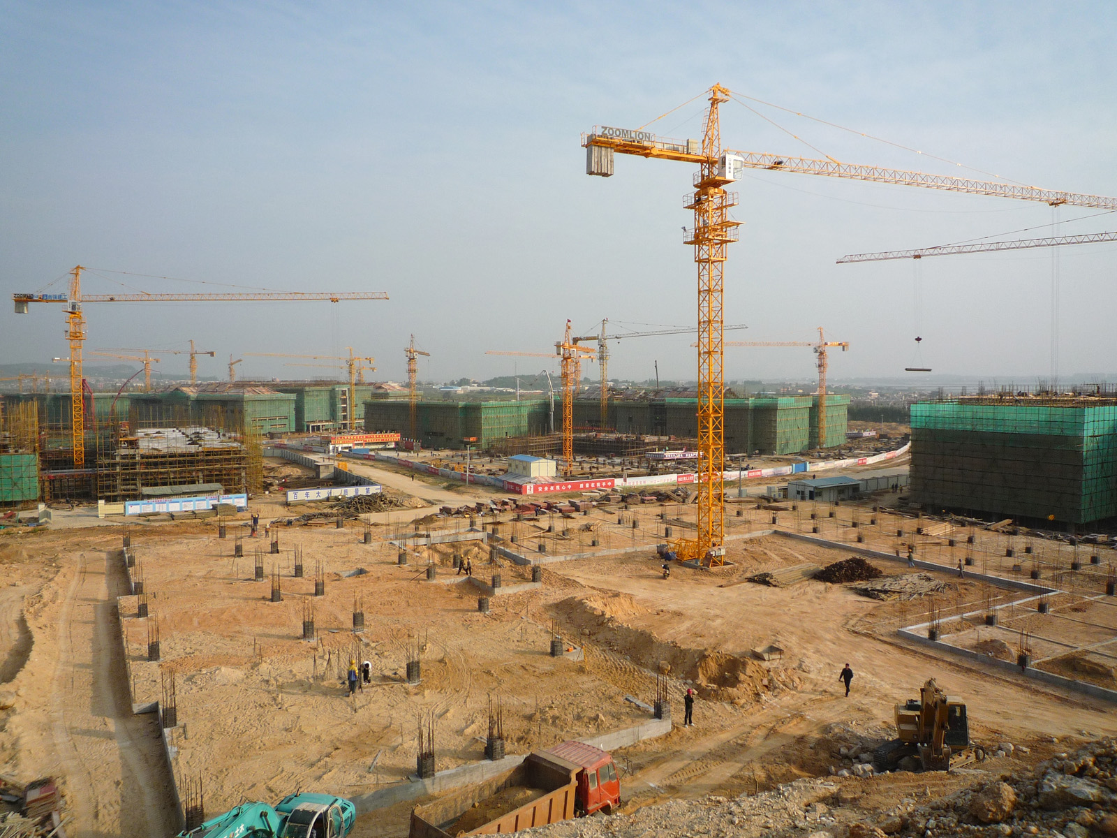 Xiang An Campus under construction, Dec 2011